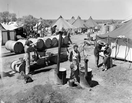 Meteorology - Camping - Open air ablutions during the early stages of the establishment of the Federal Weather Station at Giles in the Rawlinson Ranges, Western Australia, more than 1100 miles from Perth the State capital and about the same distance north west from Adelaide, South Australia, - The oil drums contain artesian bore water - The station is equipped with the latest electronic instruments and as well as being an important addition to Australia's highly developed weather service, its work will be of great value to the atomic testing grounds at Maralinga and at Woomera in South Australia - The station was named in honour of Ernest Giles the explorer who in 1872-1876 discovered the country in and around the Rawlinson Ranges